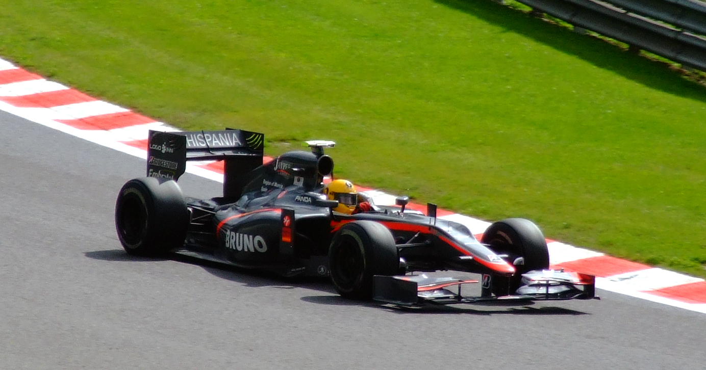 Bruno Senna, HRT F1 F110, Pouhon, Spa-Francorchamps, Second Practice, 2010 Belgian Grand Prix.